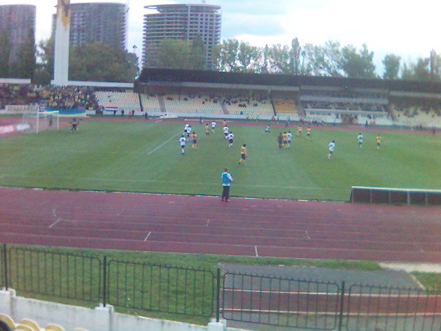 Football match: FC Artmedia Petržalka and FK DAC 1904 Dunajská Streda Liga: Corgoň liga Date: 27th September 2008 Stadion: Štadión Pasienky Score: 0-0